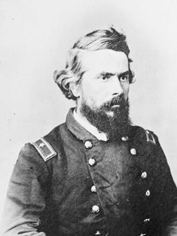 Brigadier General Truman Seymour, USA